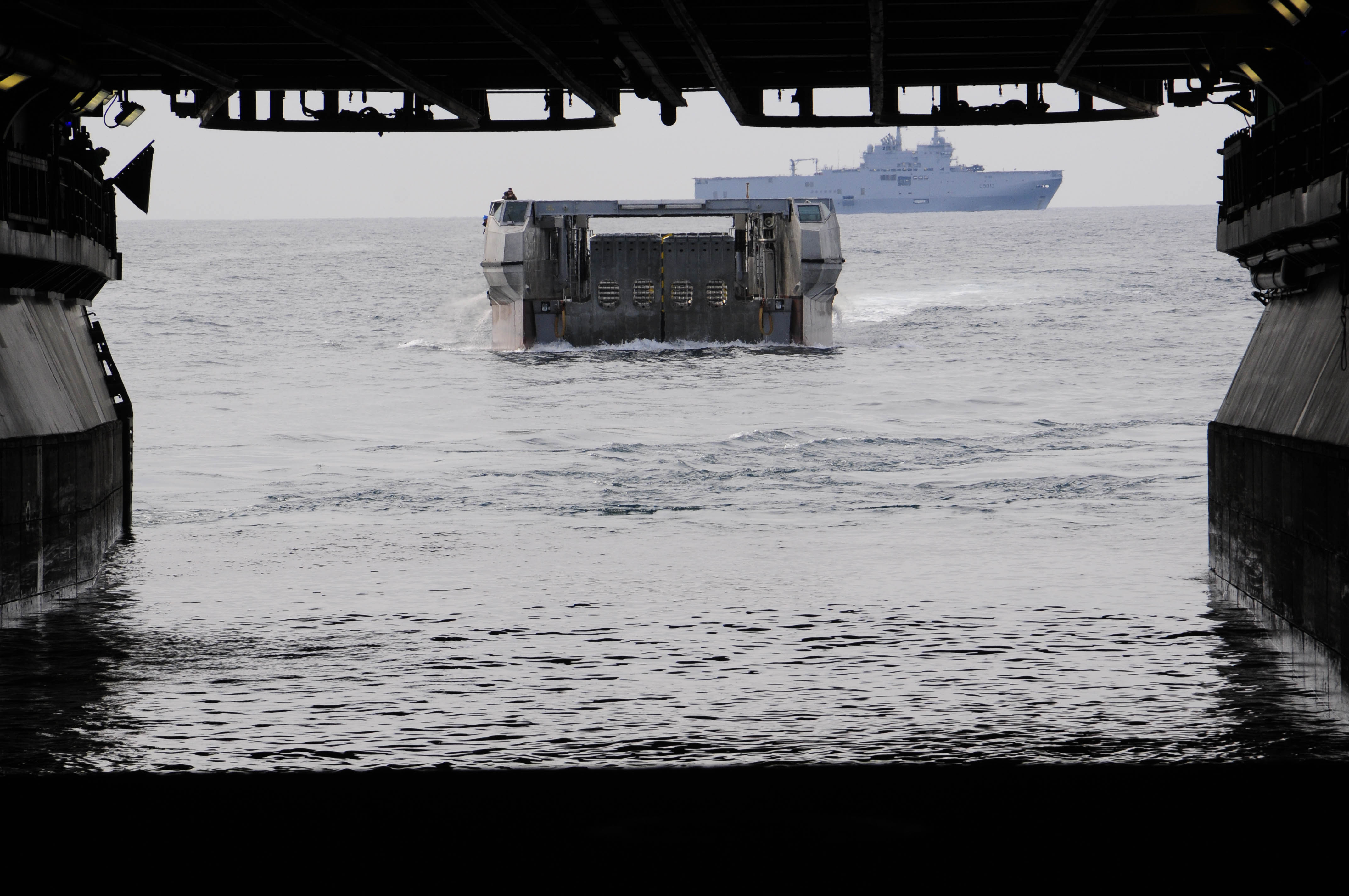 ATLANTIC OCEAN (Feb. 7, 2012) A French landing catamaran (L-CAT) pulls into the well deck of the amphibious assault ship USS WASP (LHD 1) while its home ship, the French amphibious assault ship Mistral (L9013), transits in the background during Exercise Bold Alligator 2012. Bold Alligator, the largest naval amphibious exercise in the past 10 years, represents the Navy and Marine Corps' revitalization of the full range of amphibious operations. The exercise focuses on today's fight with today's forces, while showcasing the advantages of seabasing. This exercise takes place Jan. 30 through Feb. 12, 2012 afloat and ashore in and around Virginia and North Carolina. #BA12 (U.S. Navy photo by Mass Communication Specialist Seaman Andrew M. Rivard/Released)